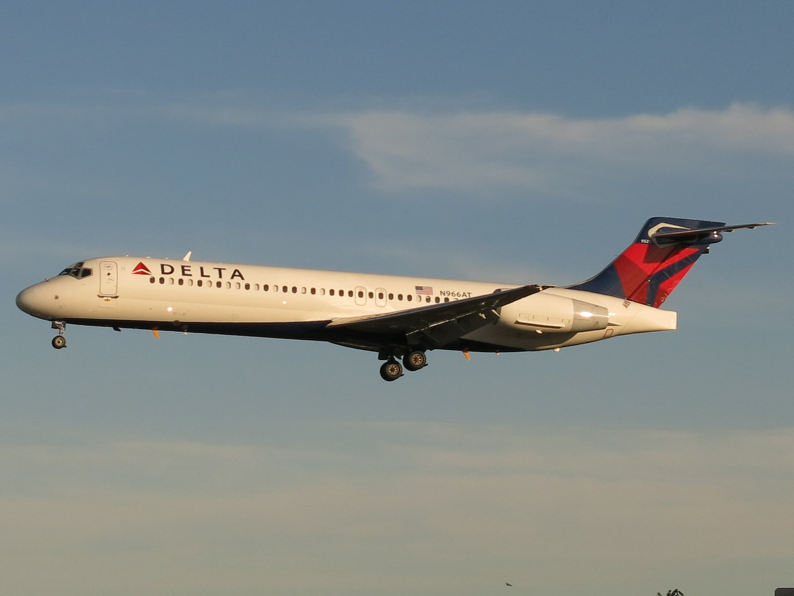 Delta Air Lines Boeing 717-2BD N966AT is on short final to LaGuardia Airport Runway 4.